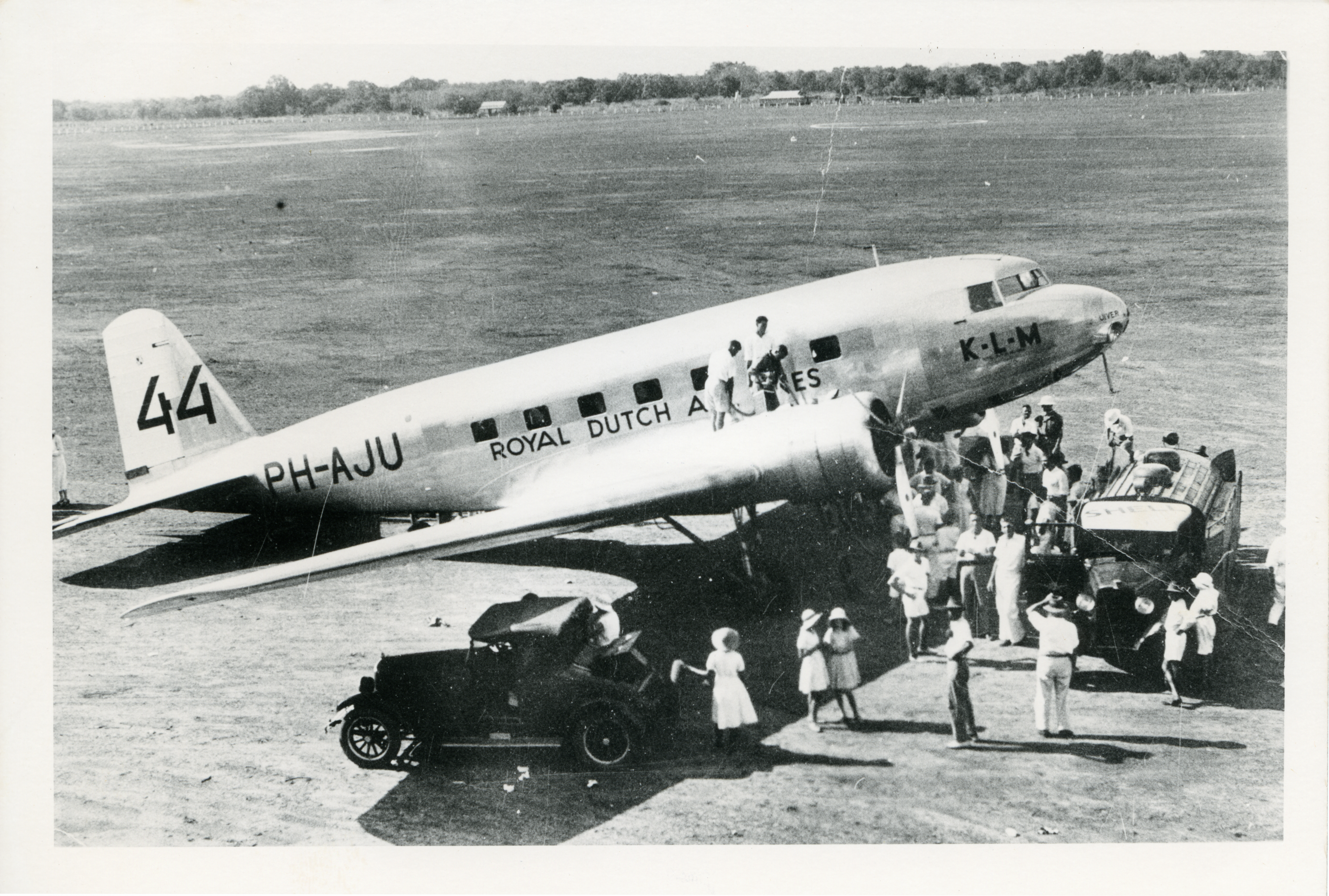 DC2 PH-AJU 'Uiver' of KLM 1934 air race no 44 Parmentier/Moll. Second in both speed and handicap sections. Prize 2000 pounds. Facsimile of this aircraft is mounted at Albury airport New South Wales. Shows crowd around plane.